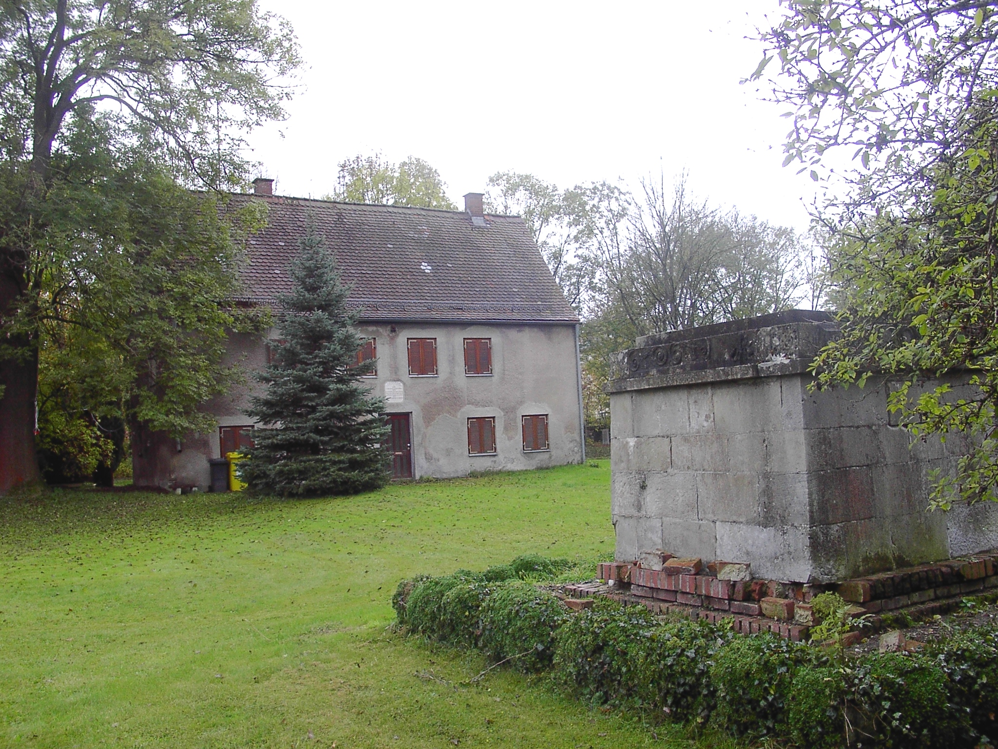 former tahara and keeper´s house with memorial